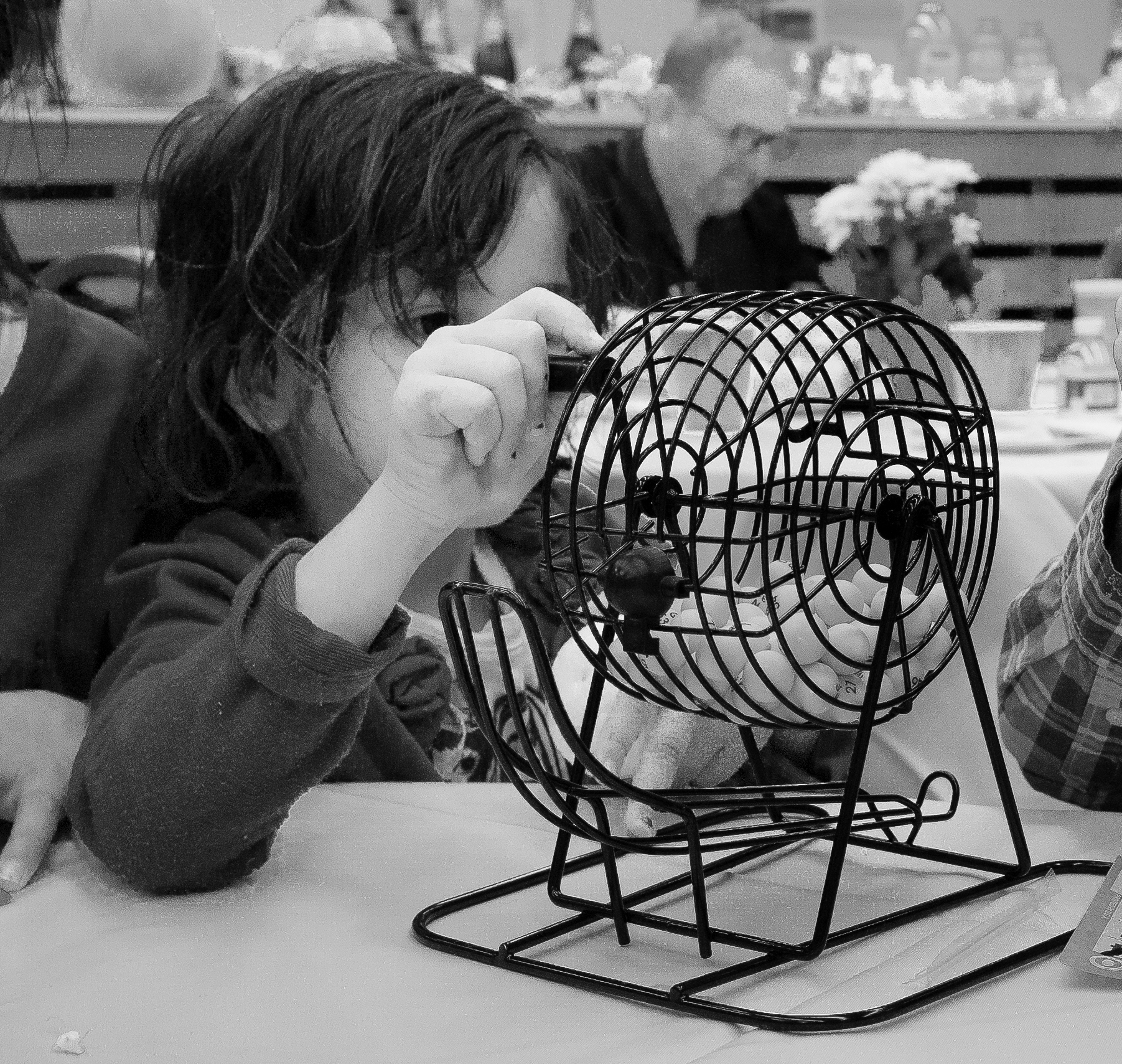 A young girl turns the handle on a bingo drum